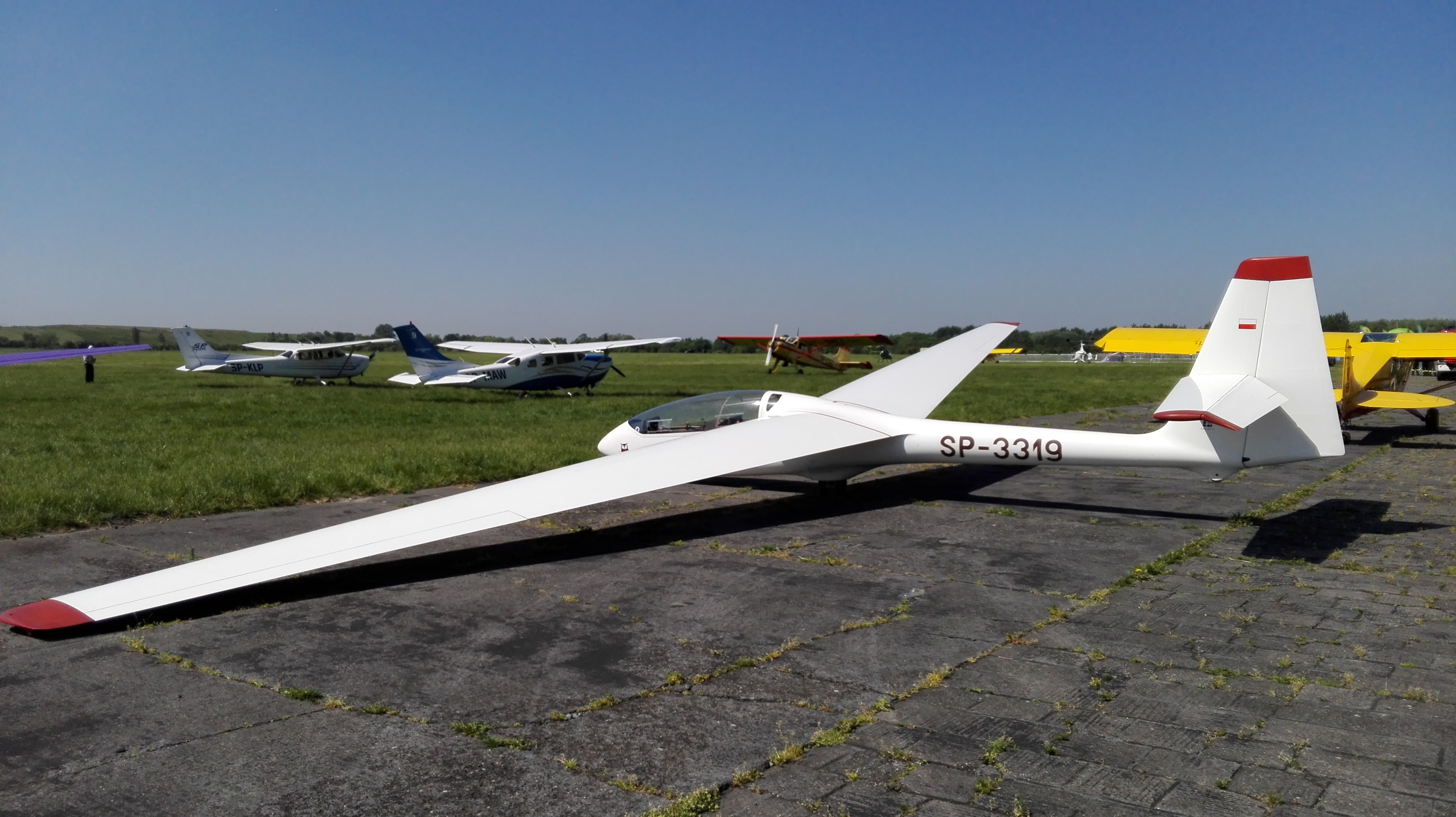 SZD-50 Puchacz3